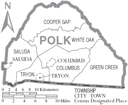 Map of Polk County, North Carolina, United States with township and municipal boundaries